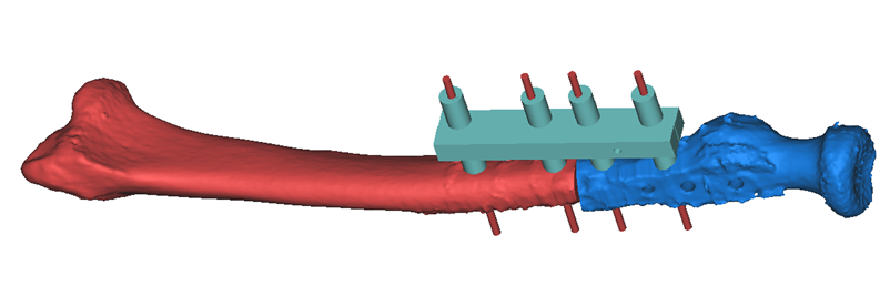 Computer Assisted Radius Osteotomy: Part 4